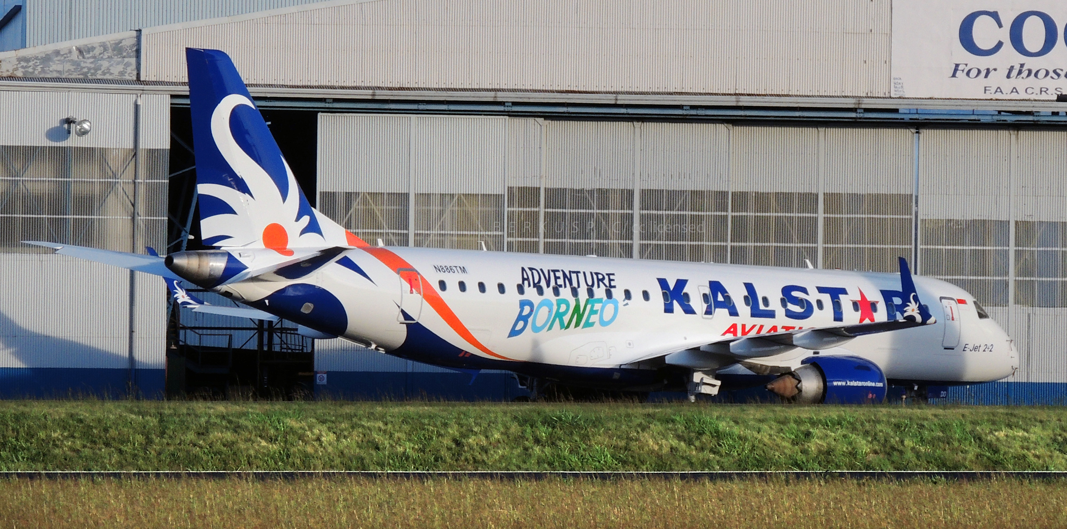 Kalstar Aviation Embraer 190 at San Jose, Costa Rica